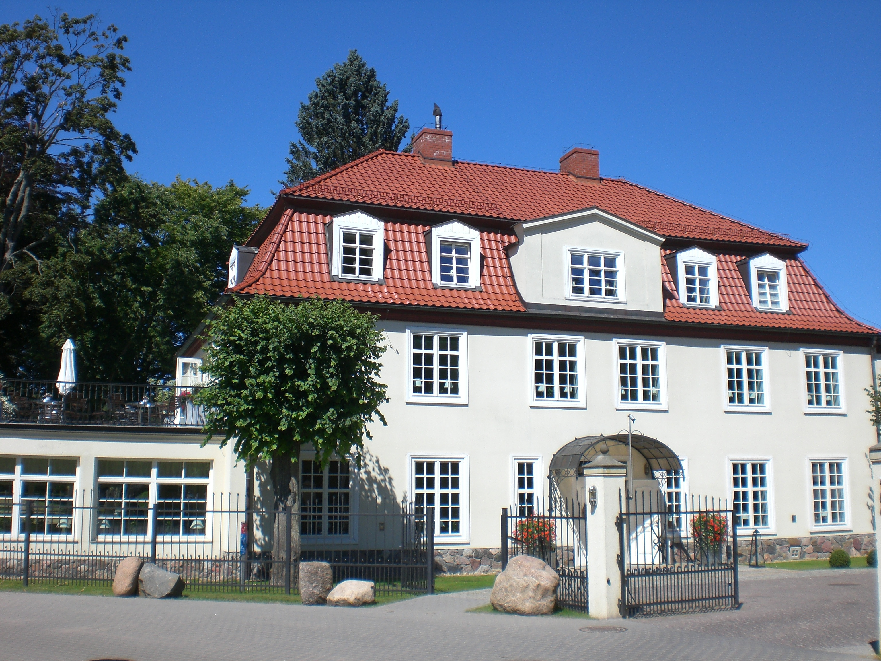 "Dwór Oliwski" Hotel in Gdańsk Oliwa